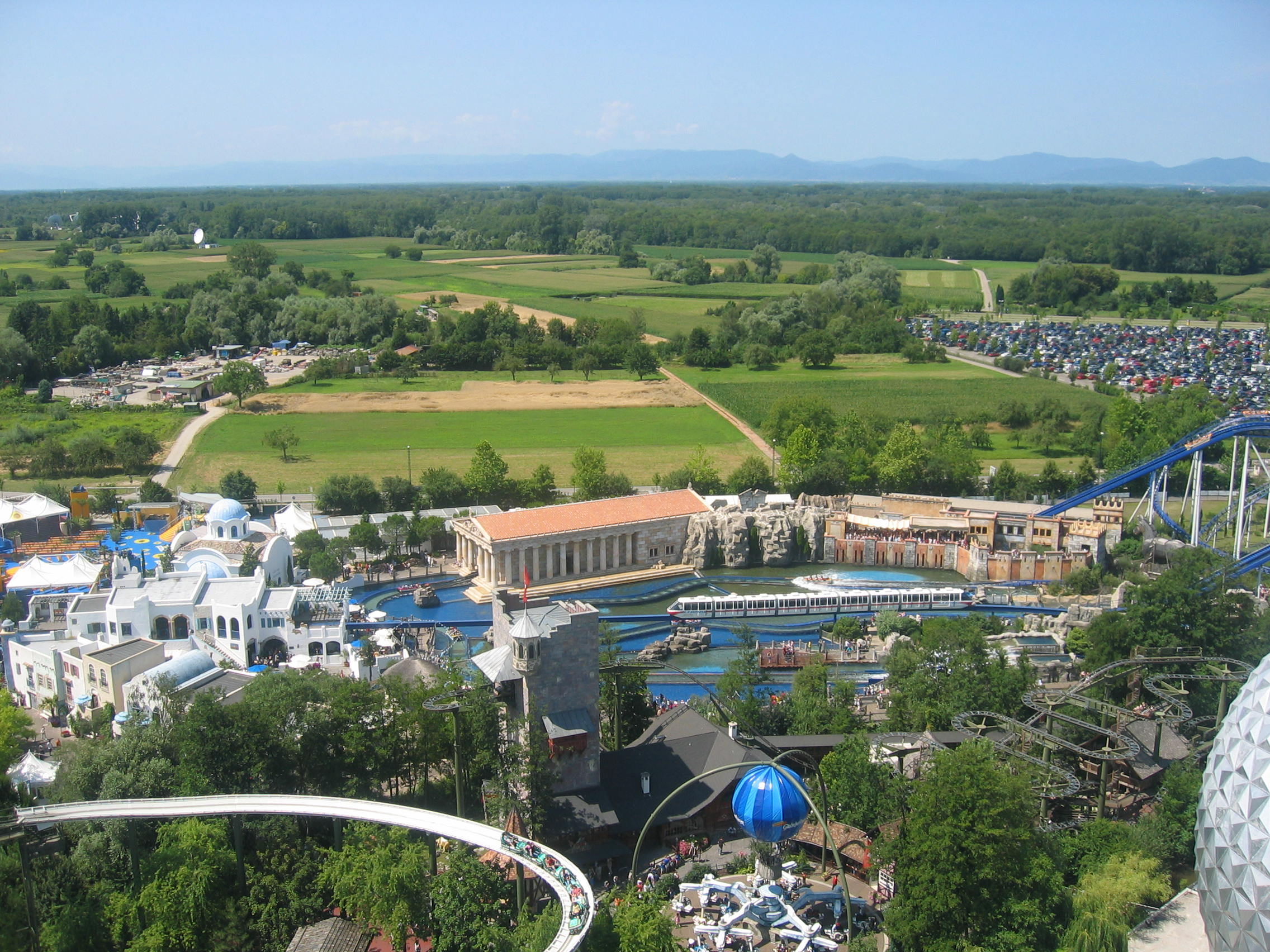 Europa-Park in Rust, Germany. View from Euro-Tower over Park. You can see 'Greece', a part of the park.